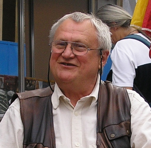 Gábor Czakó Hungarian author